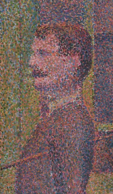 Detail showing pointillism technique. Instead of painting outlines and shapes with brush strokes and areas of color, pointillism builds up the image from separate colored dots of paint. From a distance, the dots merge to some extent and appear to be areas of shaded tones, but the colors have an extra vibrancy from the juxtaposition of contrasting dots.